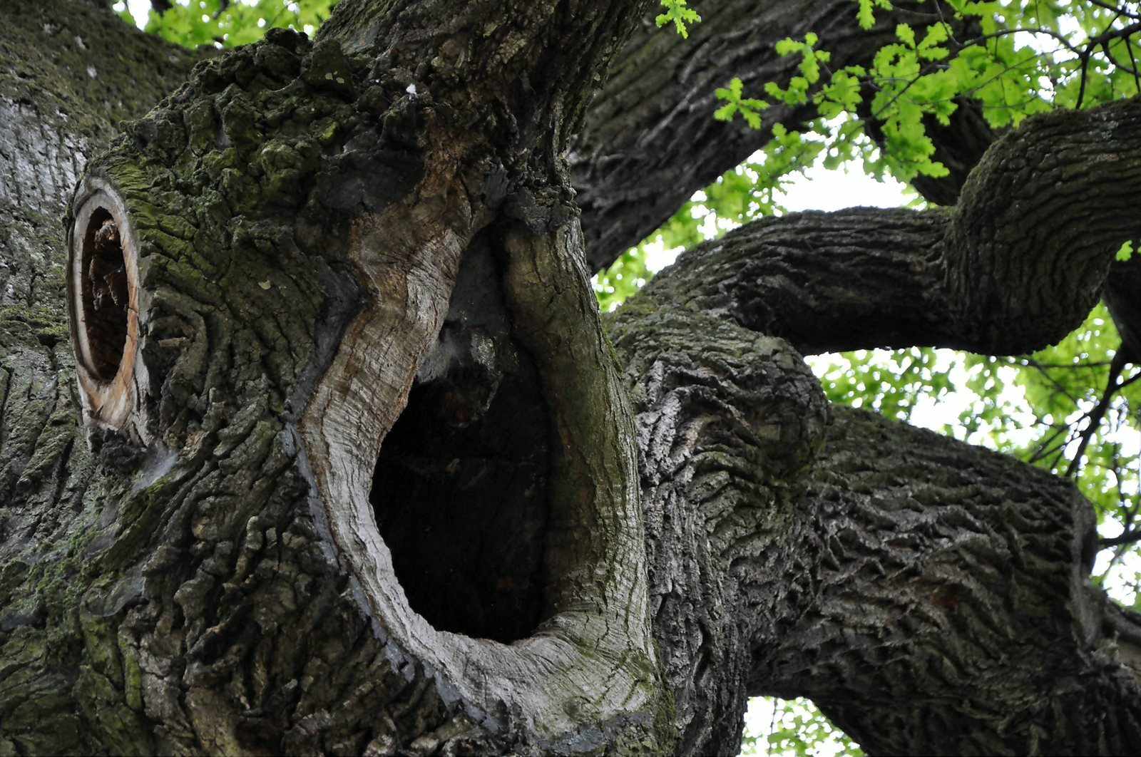 2017 Winner ¨Josef Oak¨, Poland